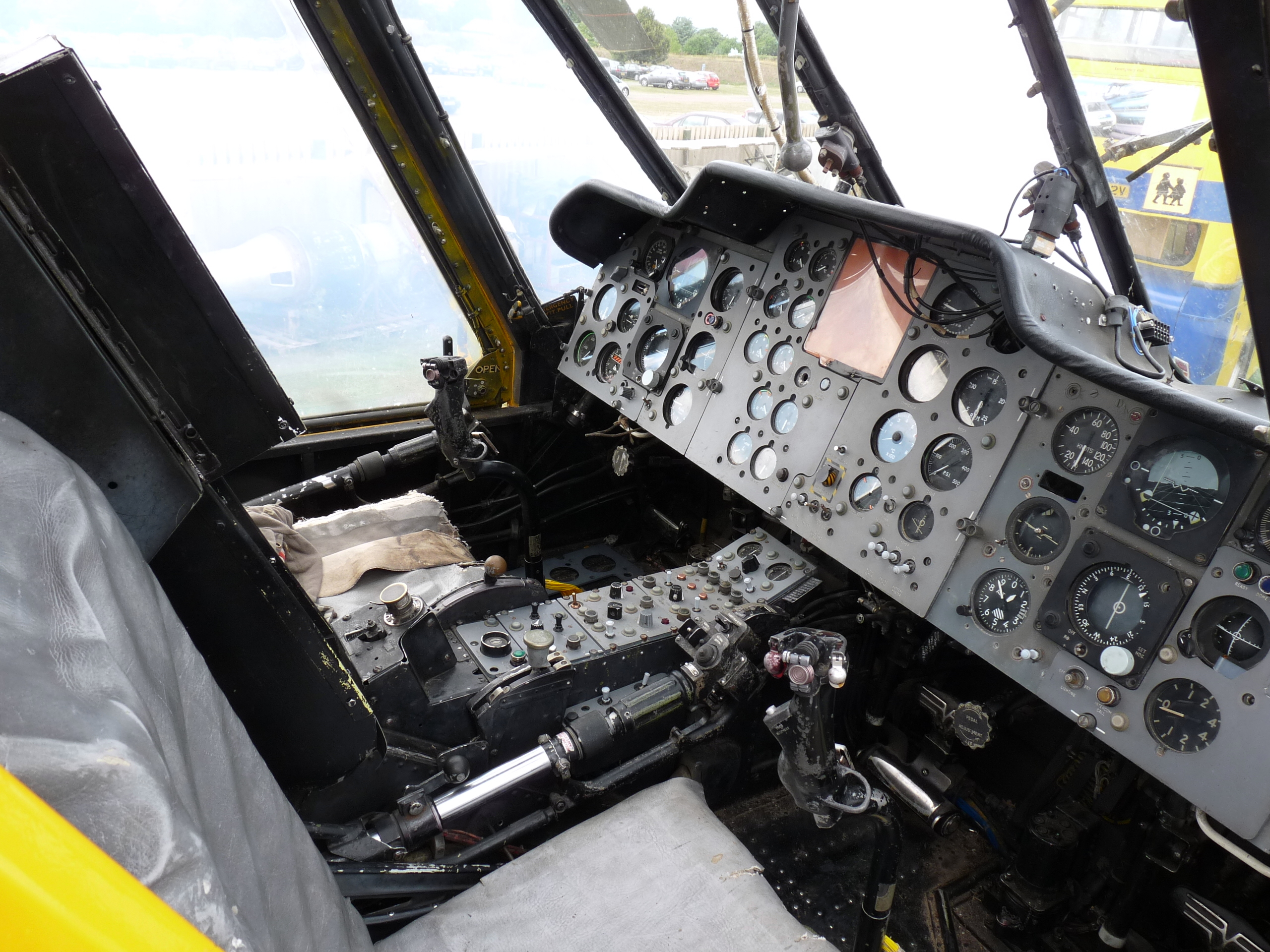 Cockpit of Westland Wessex HAS3 XT257, exhibited in Bournemouth Aviation Museum